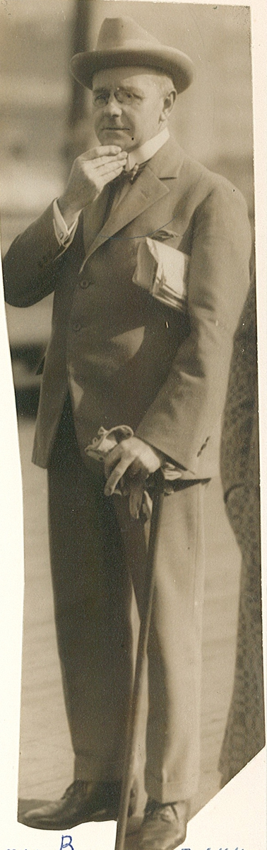 Norwegian art historian Carl Wille Schnitler (1879–1926)